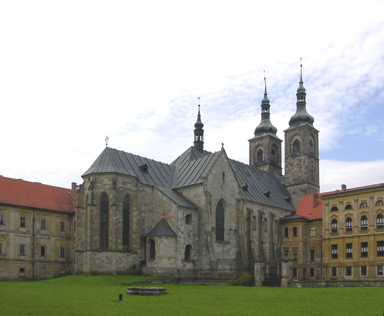 Church of the Annunciation within Teplá Monastery, Cheb District, Czech Republic.